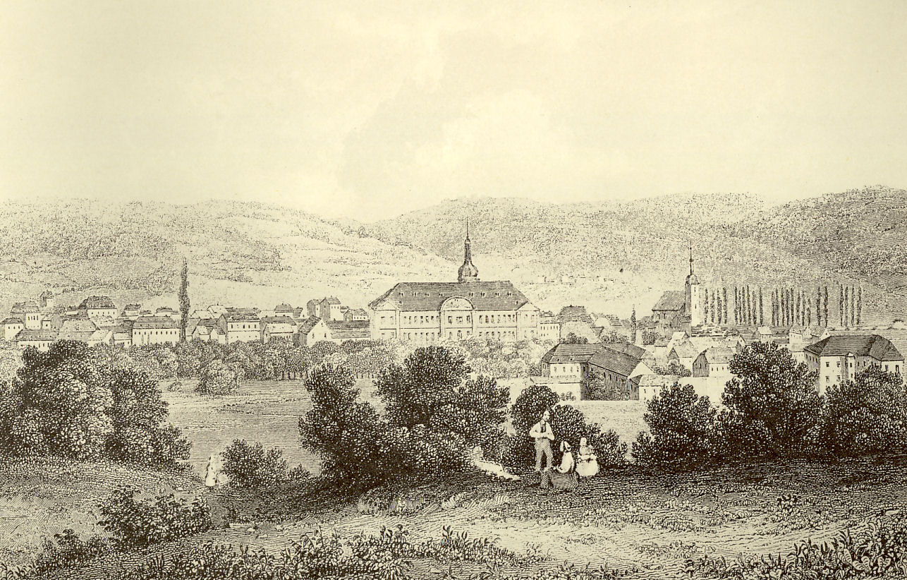 historical sight of the German place of Zweibrücken by Verhas and Winkles